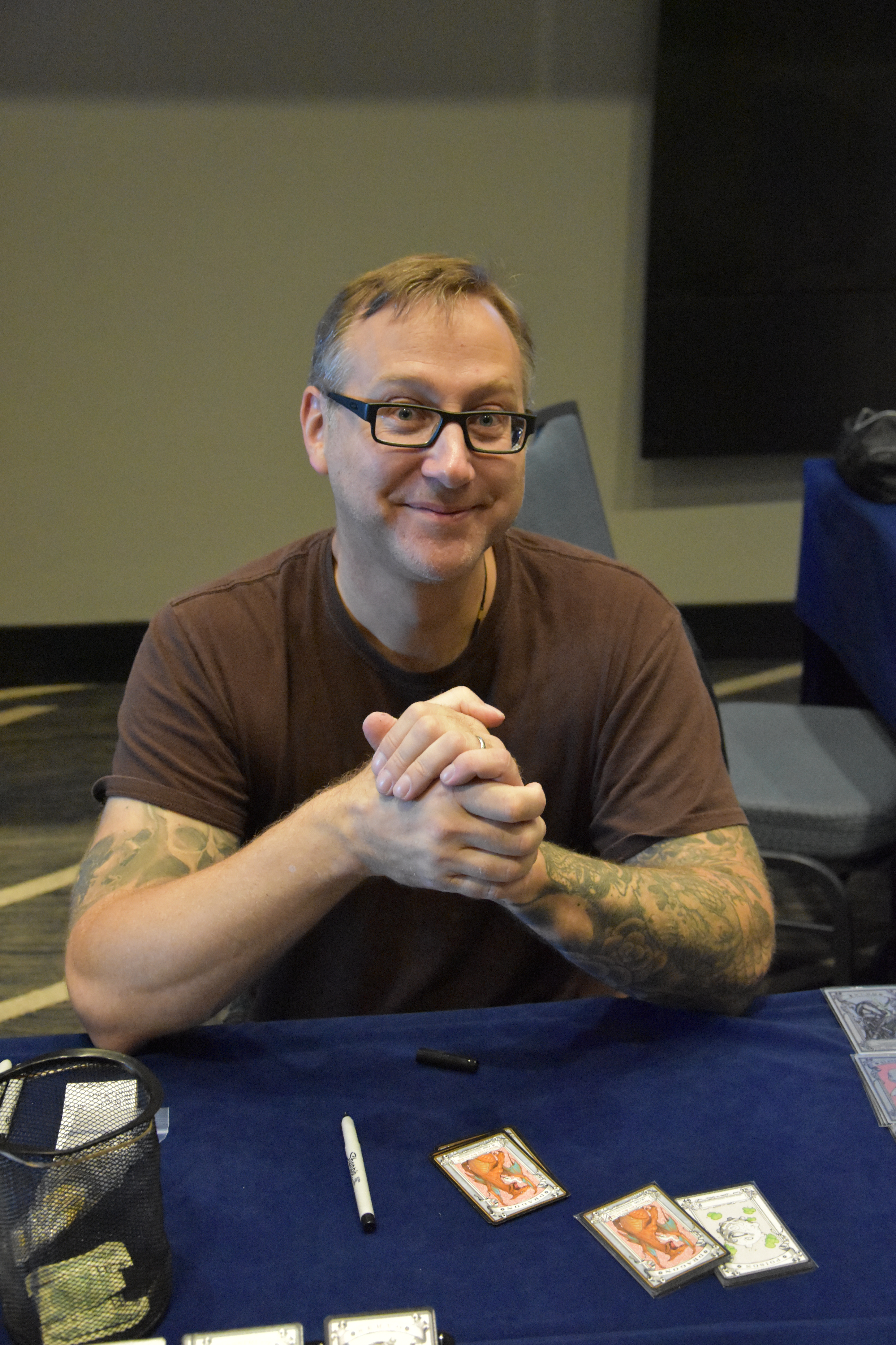 American fantasy artist rk Post at Magic: The Gathering Grand Prix in Mexico City in 2018.